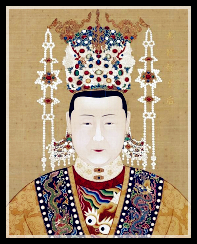 Portrait of Empress Xiaojing of Ming Dynasty China